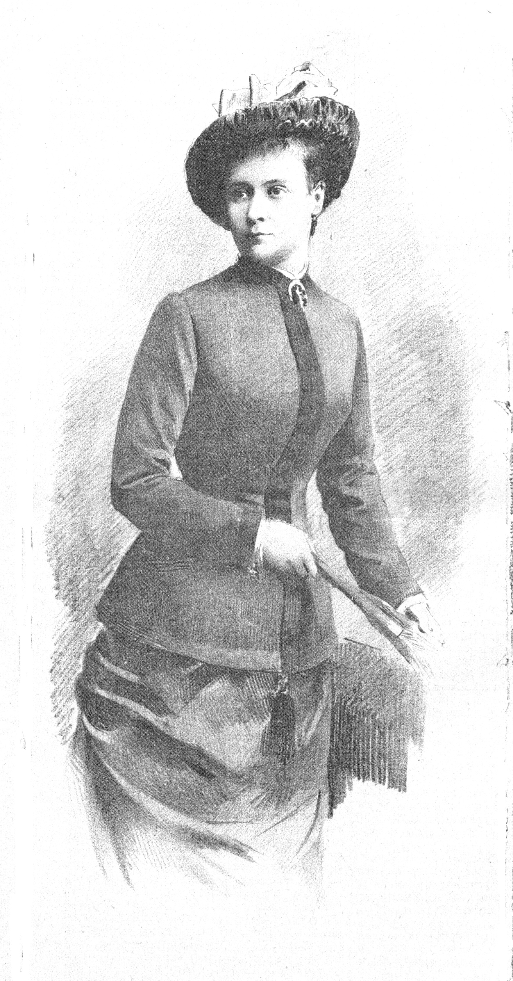 Portrait of Minna Bichler (1858-1936), ethnic German actress in Prague (Bohemia, later Czechoslovakia)